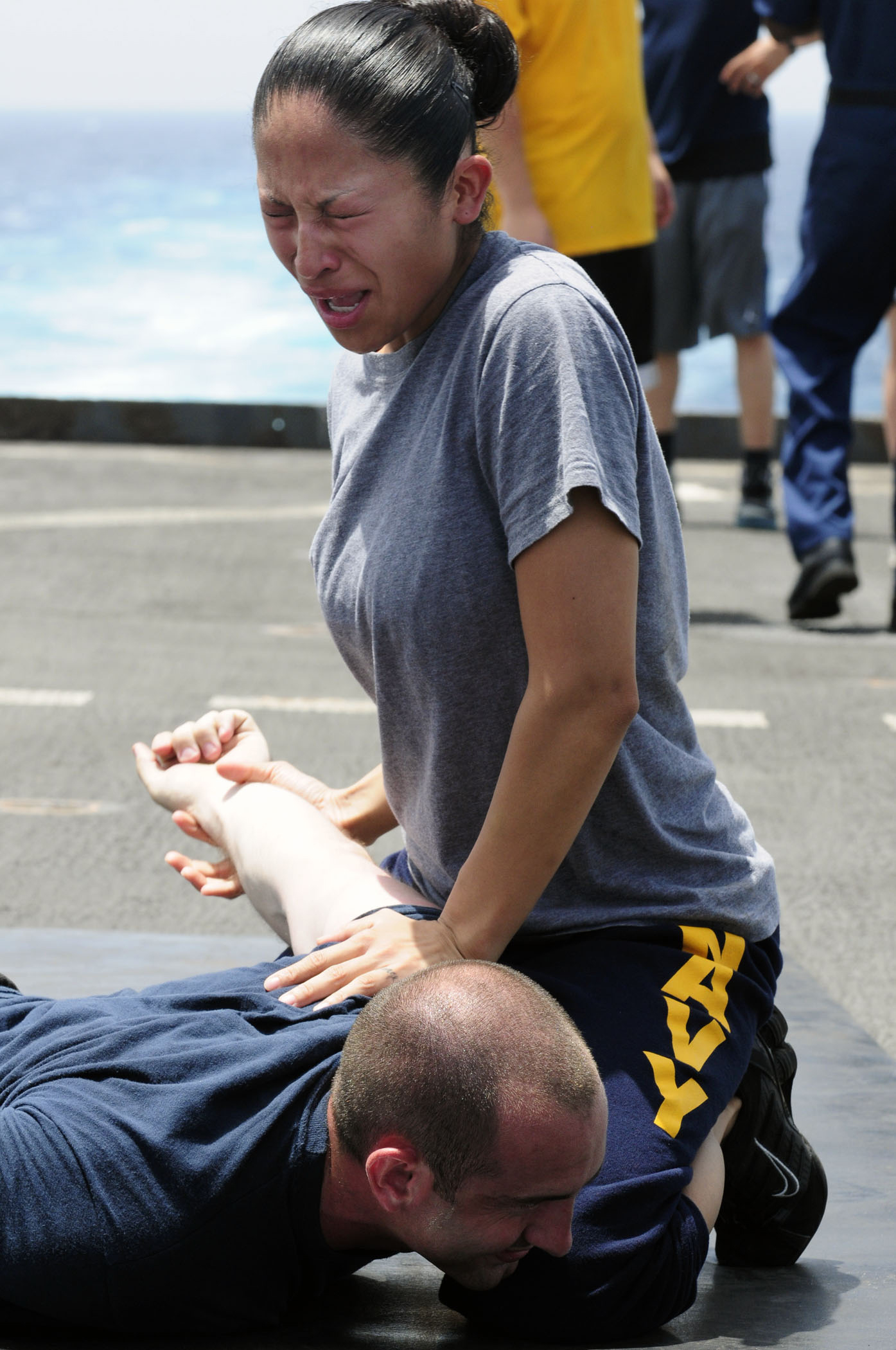 Petty Officer 2nd Class Jaqueline Rodriguez subdues a simulated suspect after being sprayed with oleoresin capsicum spray, also known as pepper spray, during security training aboard the amphibious dock landing ship USS Comstock (LSD 45) in the Gulf of Aden on May 10, 2011. The Comstock is underway supporting maritime security operations and theater security cooperation efforts in the U.S. 5th Fleet area of responsibility.